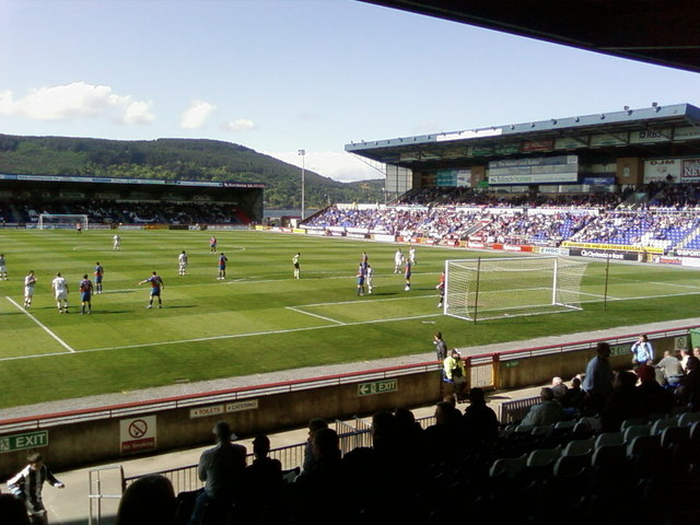 Caledonian Stadium Action from ICT v St.Mirren